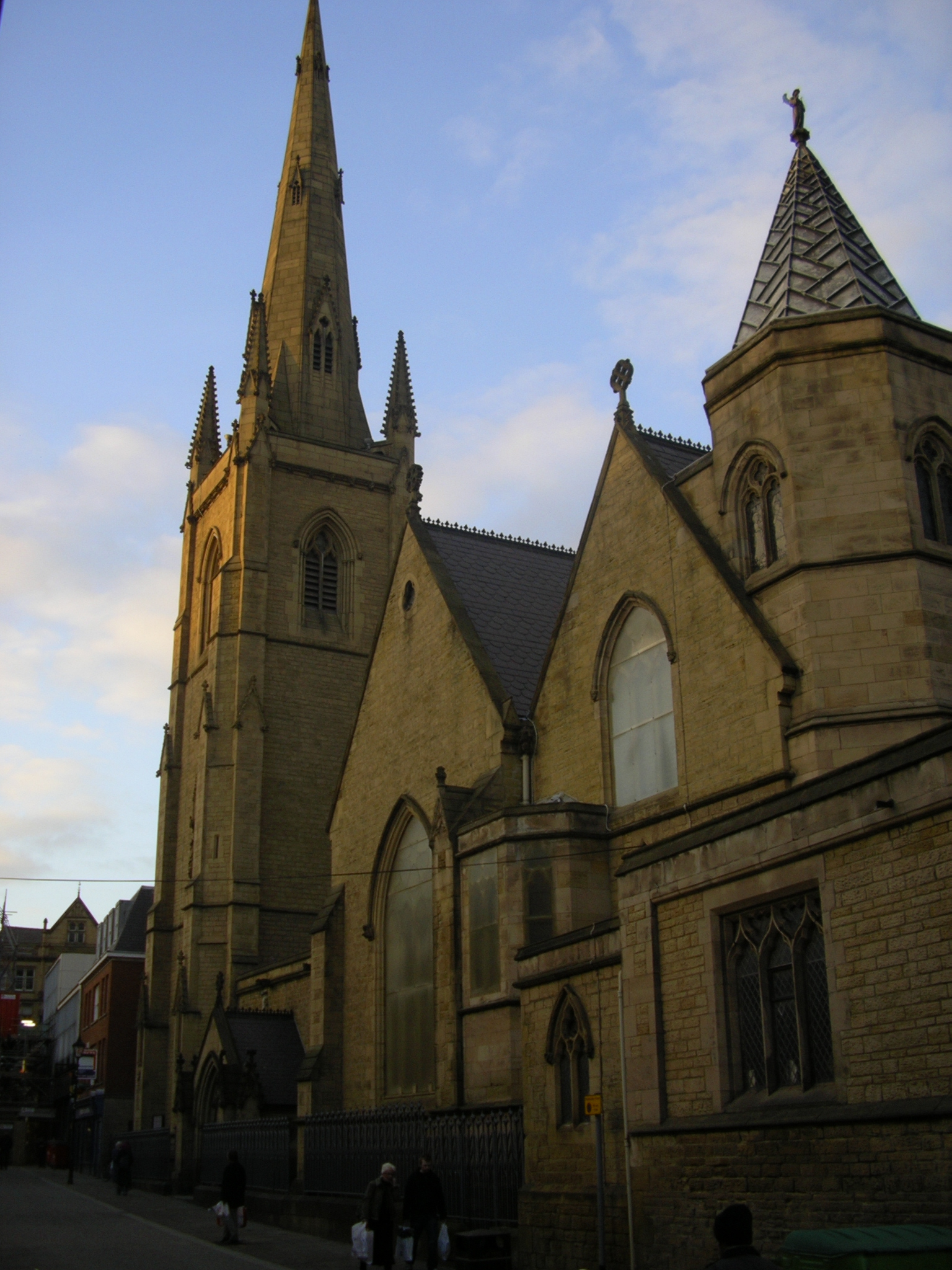 Picture taken from the south